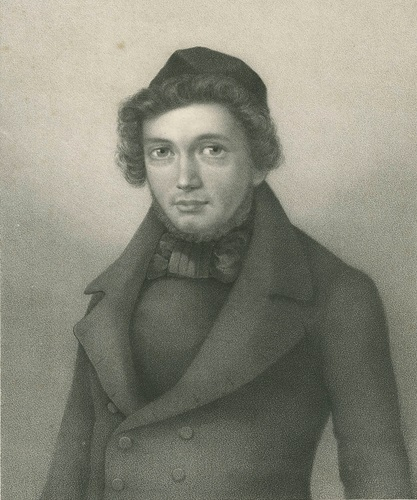 Rabbi Samuel Holdheim in his Orthodox days, as chief rabbi of Frankfurt (Oder).